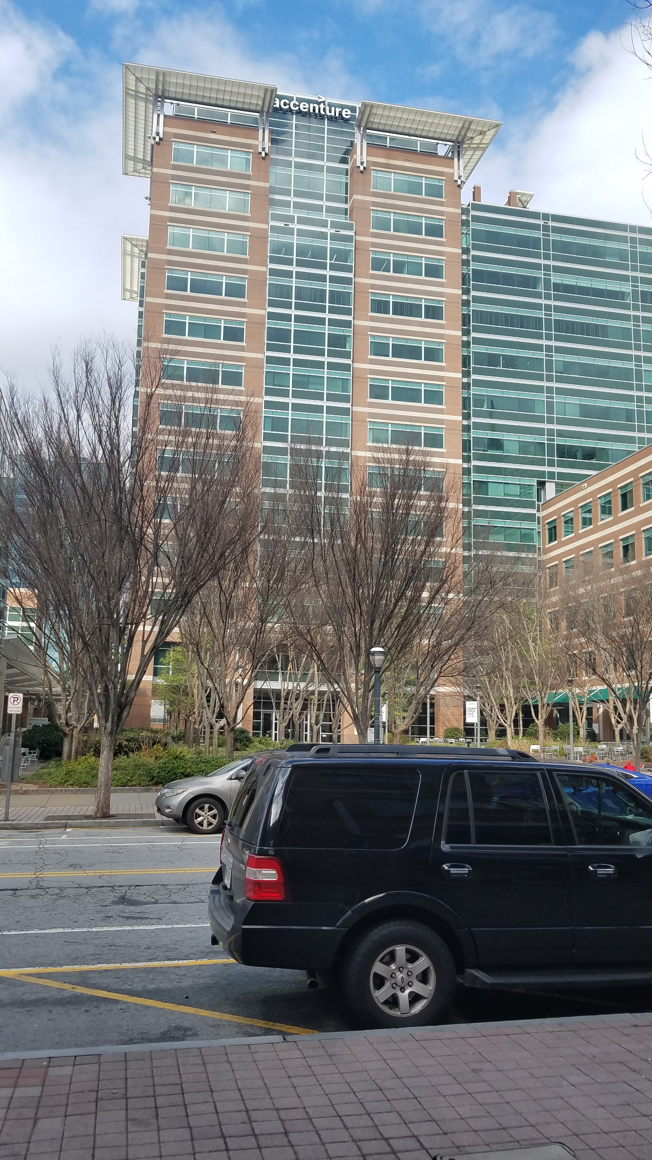 Accenture building at Technology Square, Georgia Tech.